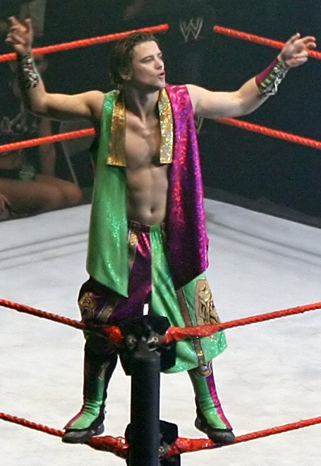 Brian Kendrick during his ring entrance. Taken during the WWE Raw - Survivor Series Tour, at Rod Laver Arena, Melbourne Park, Melbourne, Australia. Kendrick wrestled Gene Snitsky on the night; the match was won by Snitsky pinning Kendrick following a pump-handle slam.